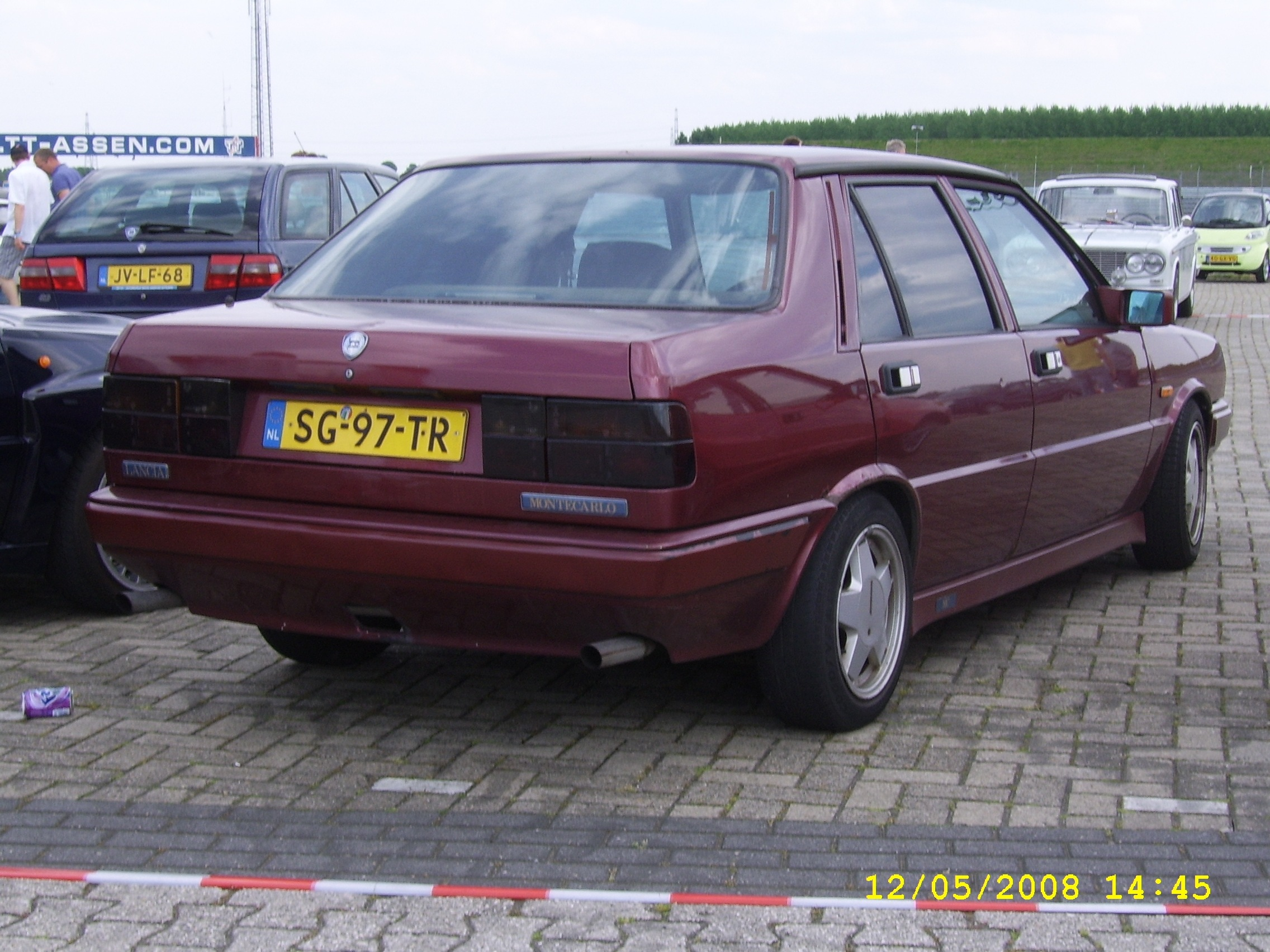 Lancia Prisma Montecarlo 1,6ie